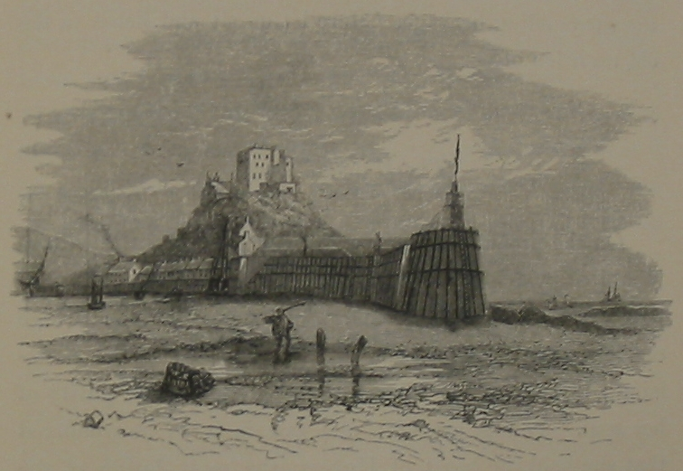 Illustration from The Channel Islands: Pictorial, Legendary and Descriptive (1857)